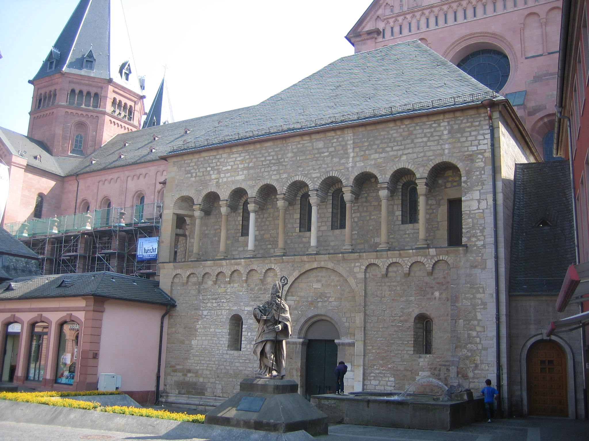 Gotthard Chapel, erected as the official palace chapel next to the cathedral of Mainz on behalf of Archbishop Adalbert I of Saarbrücken (1110-1137).